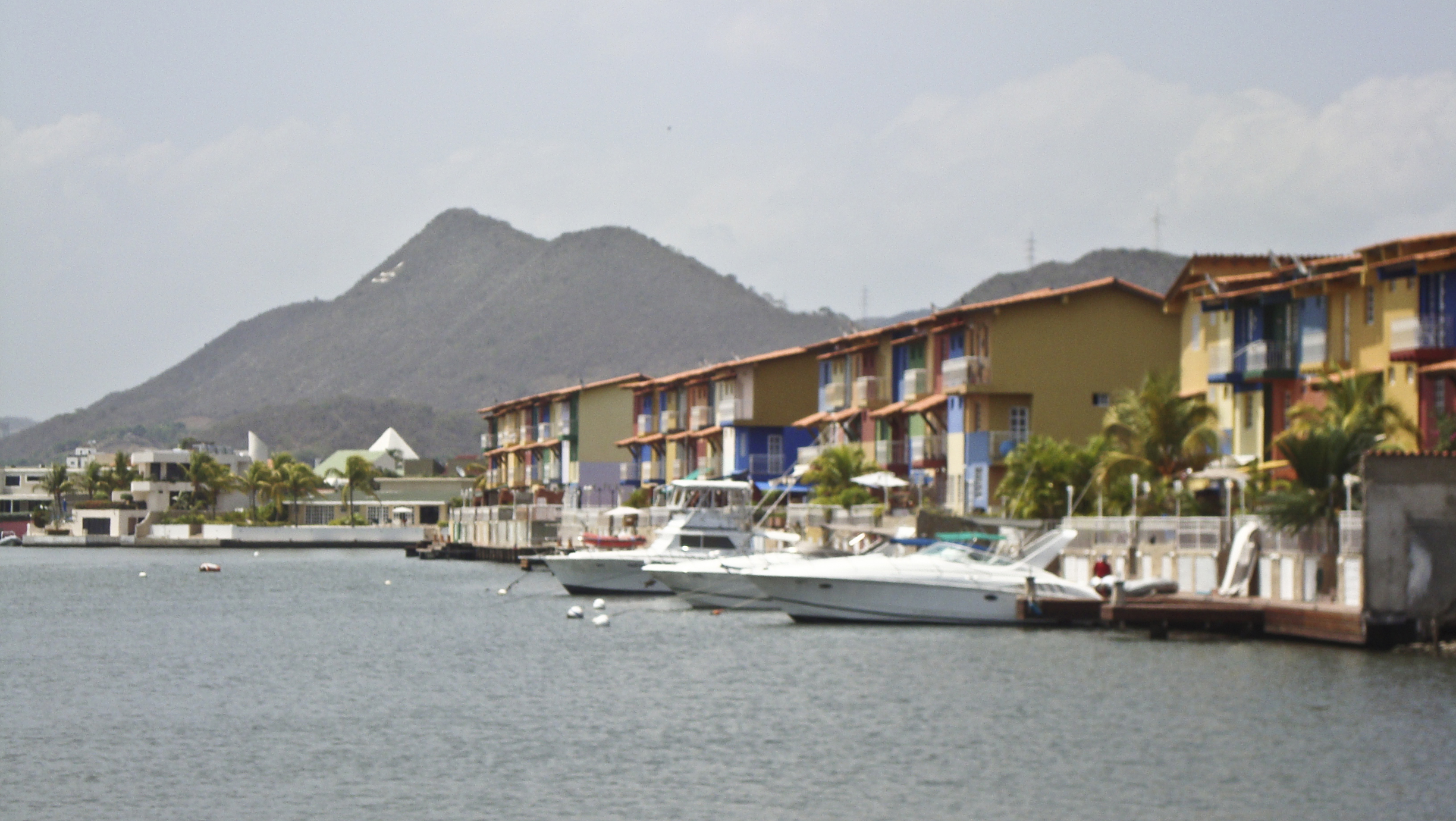 Puerto La Cruz, Anzoátegui state, Venezuela